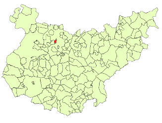 Esparragalejo, spanish municipality in the province of Badajoz, Extremadura.